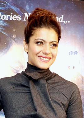 Indian actress Kajol at a promotional event for her film Dilwale in 2015